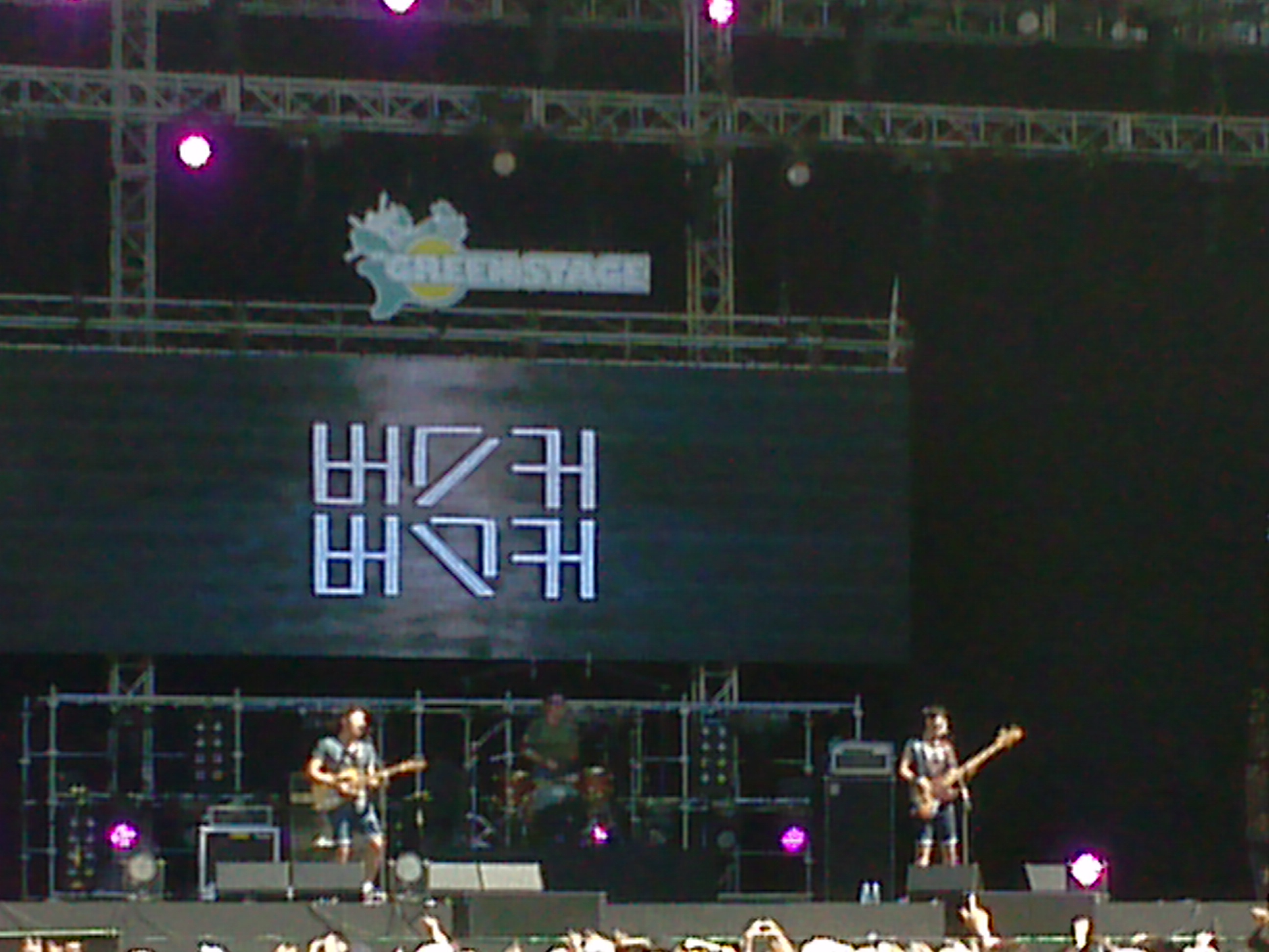 Busker Busker performing at Jisan Valley Rock Festival 2012.